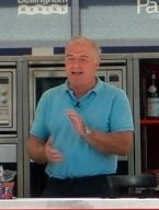 Rick Stein at Tastes of the Sea cooking demonstration.